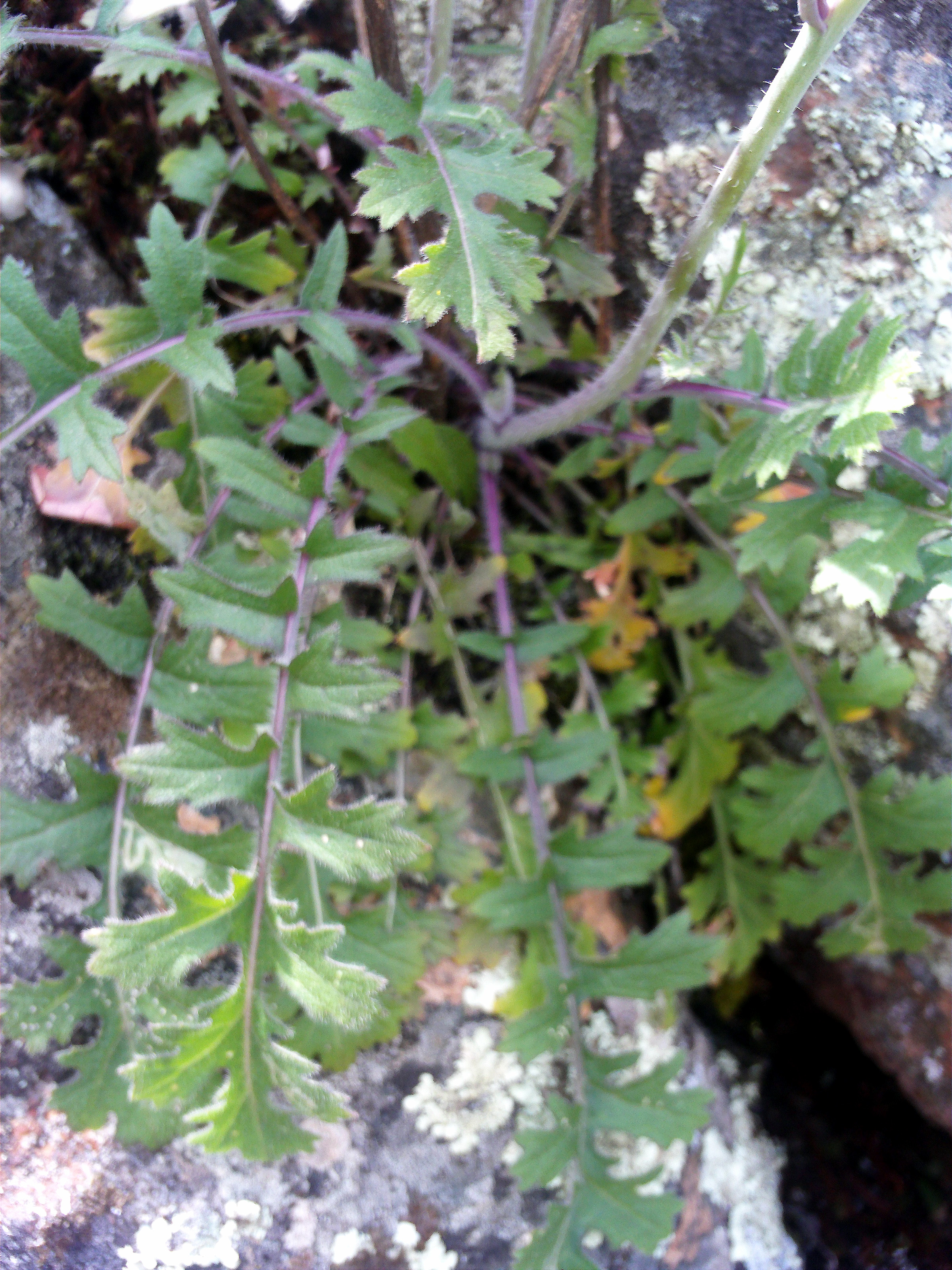 Coincya longirostra leaves basal rosette, Sierra Madrona, Spain